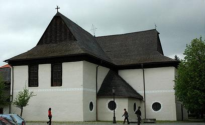 Evangelical articular church in Kezmarok